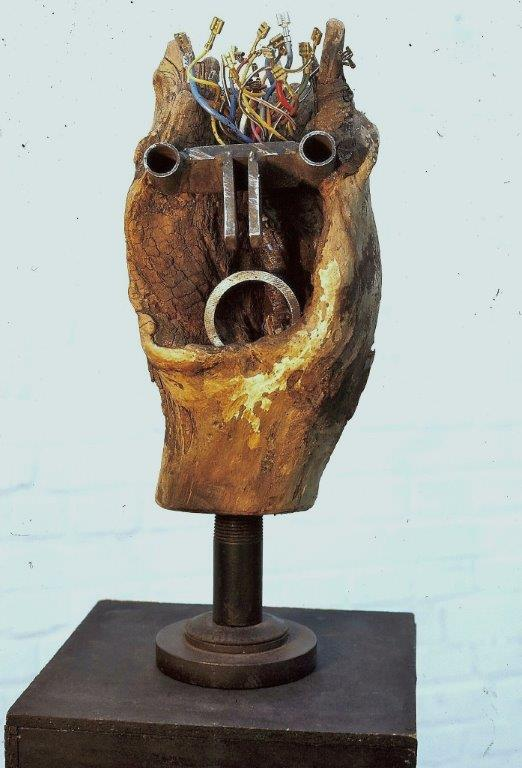 'Shockheaded Faraday' H 44cm, Copyright Rainer Weingärtner